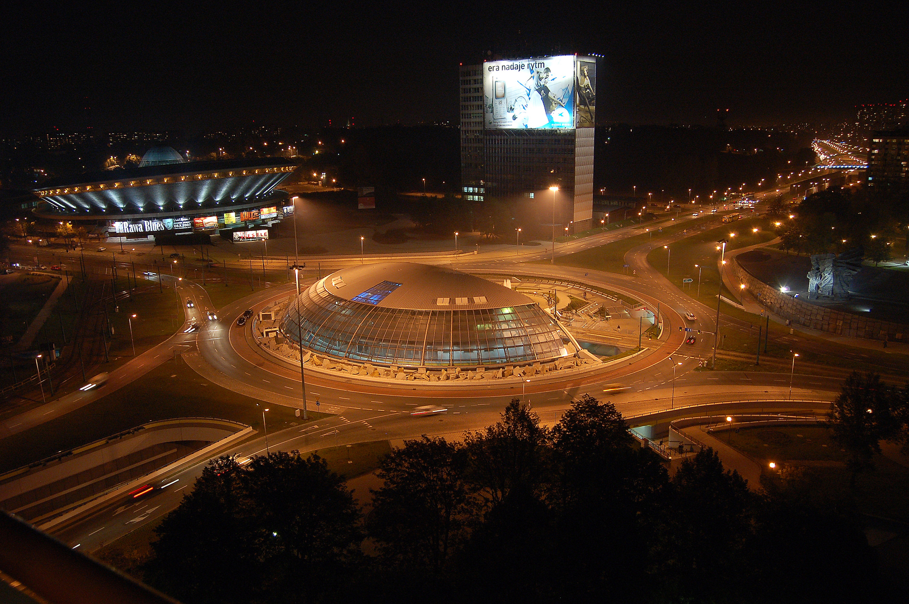 Jerzy Ziętek Roundabout by night